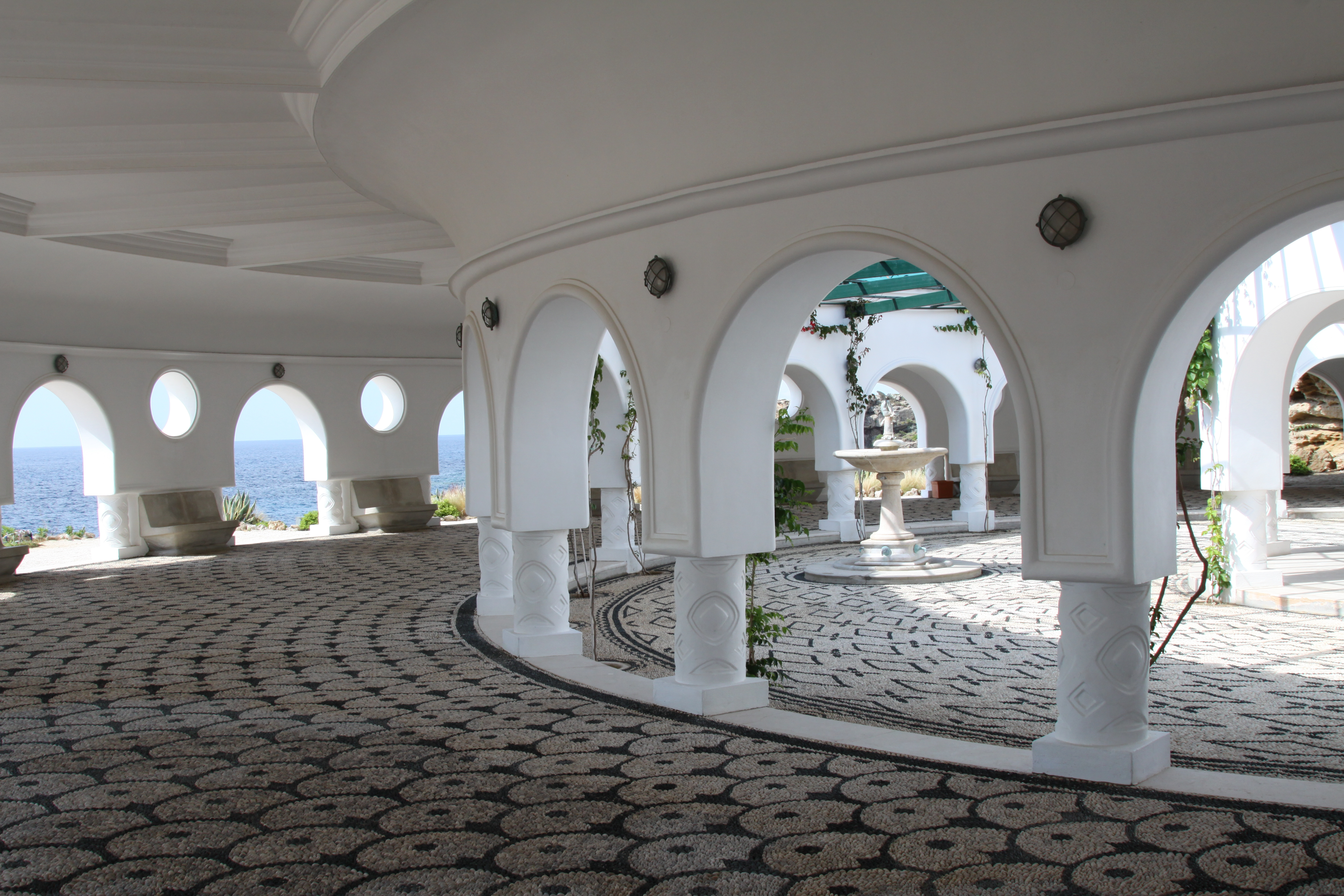 Therme in Kalithea (Rhodos)